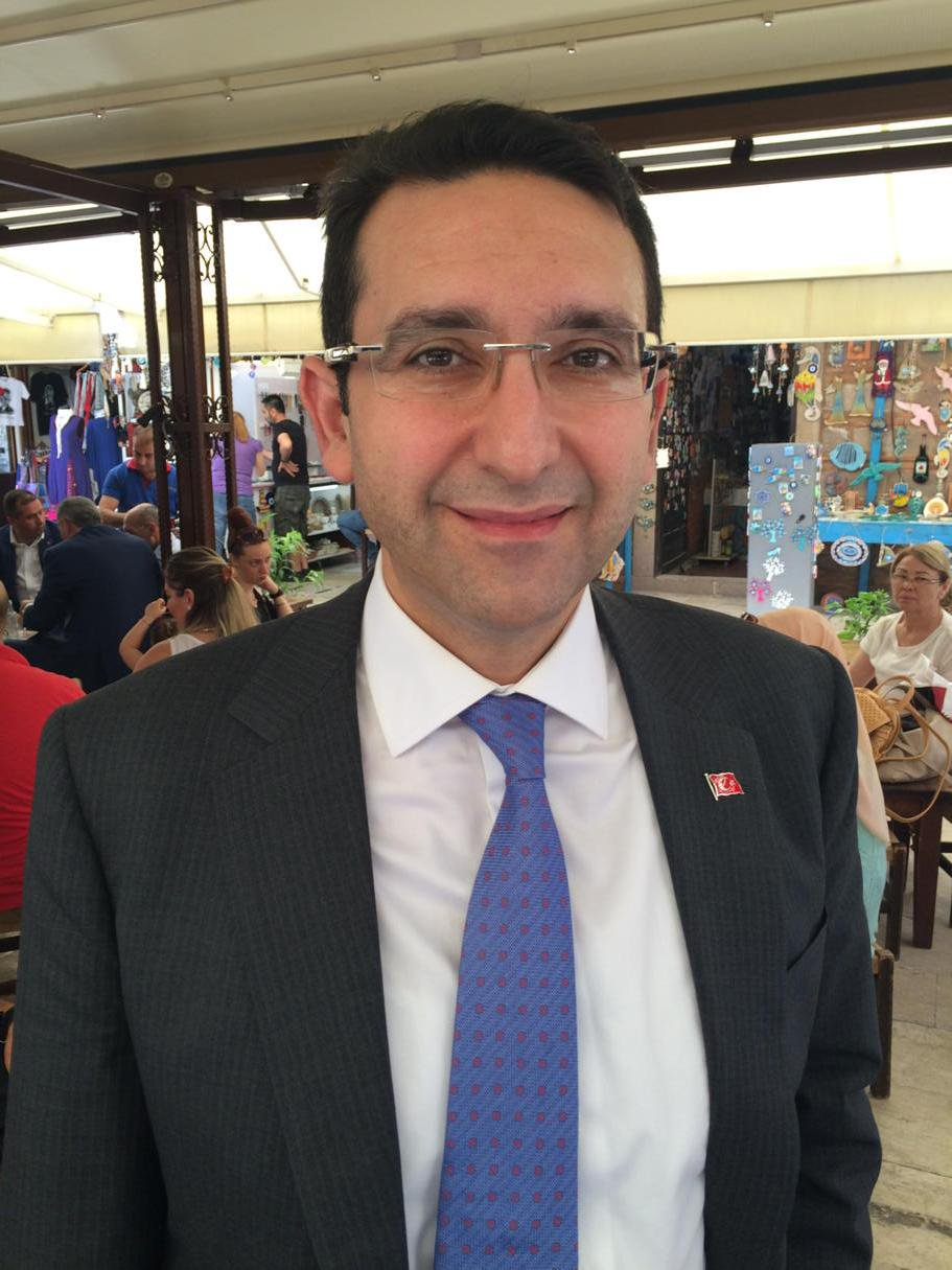 AKP candidate İbrahim Turhan, May 22, 2015 Image donated to Wikimedia UK by Mark Lowen, former BBC correspondent in Turkey.